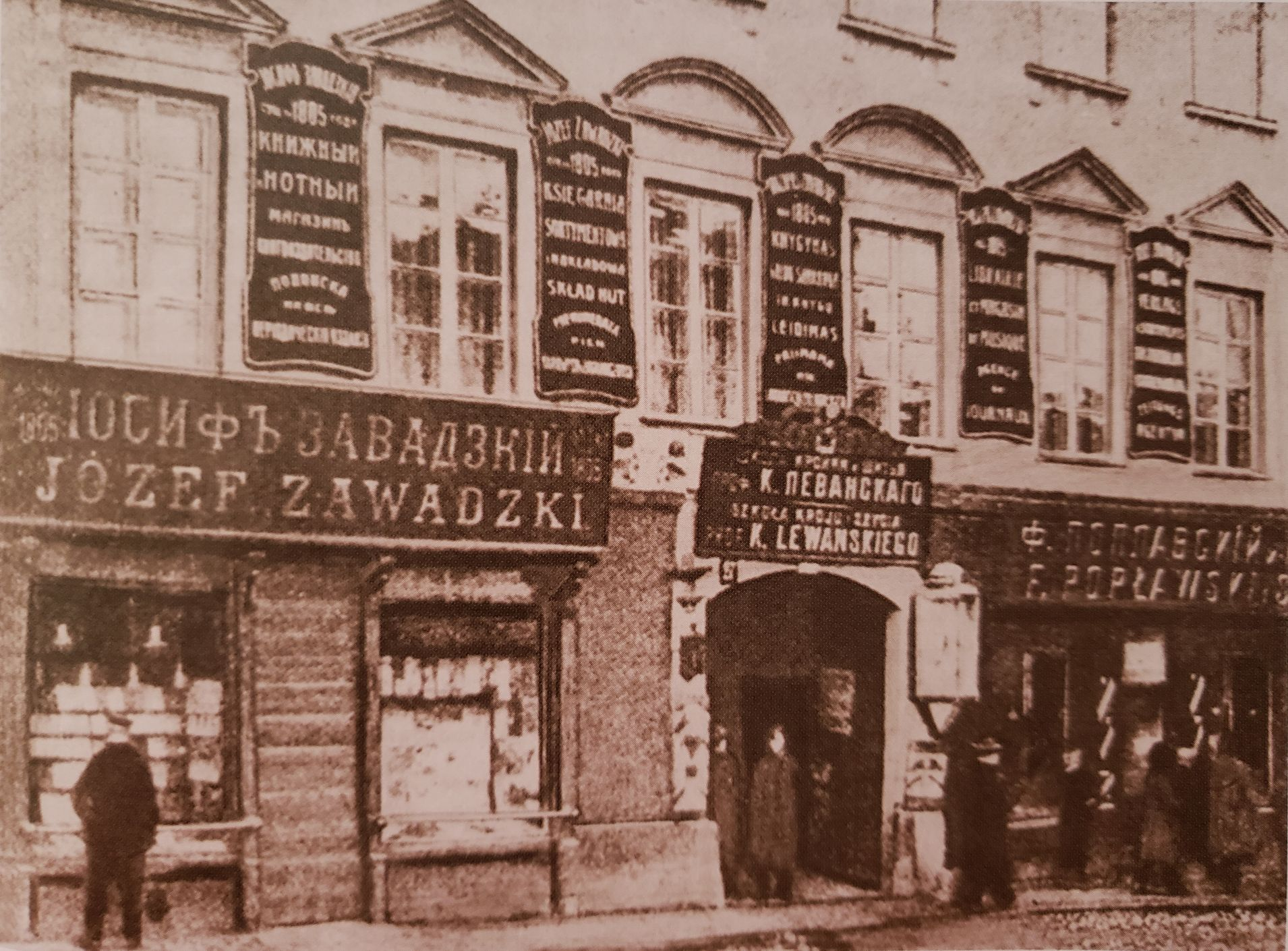 Zawadzki bookstore in Vilnius on present-day Pilies Street (the building stood at present-day Sirvydas Square and was destroyed during World War II). The promotional banners are in five languages: Russian, Polish, Lithuanian, French and German.